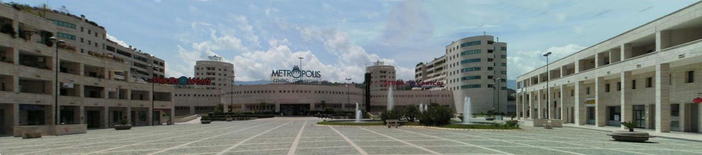 Piazza Martin Luther King and shopping center Metropolis in the subdivision Roges of Rende